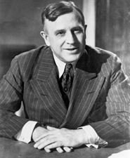 Prentiss Marsh Brown Source: Biographical Directory of the U.S. Congress Credited there to the Library of Congress